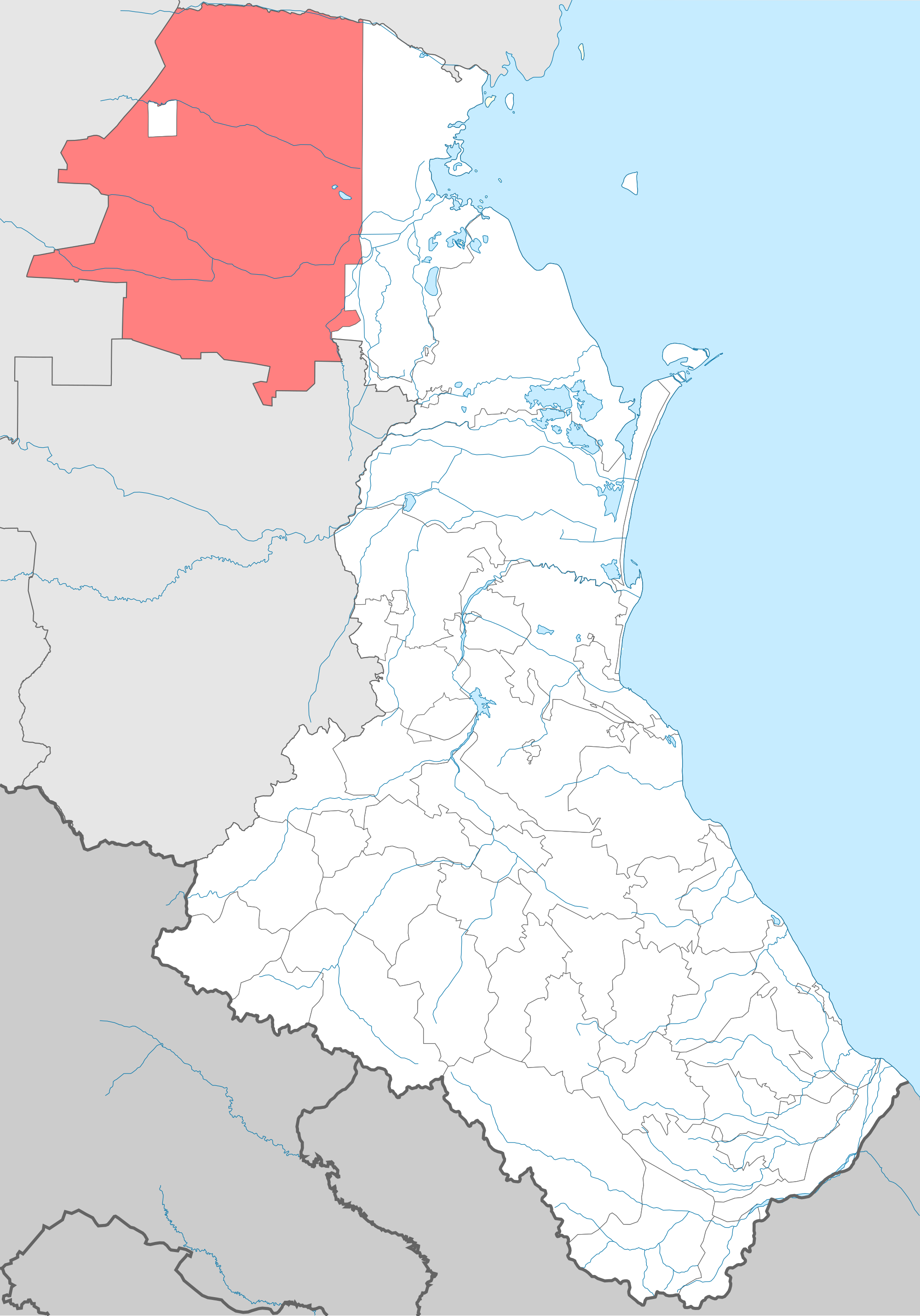 Nogayskiy rayon Dagestan